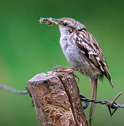 commons image:Boomkruiper1.jpg reversed to face left